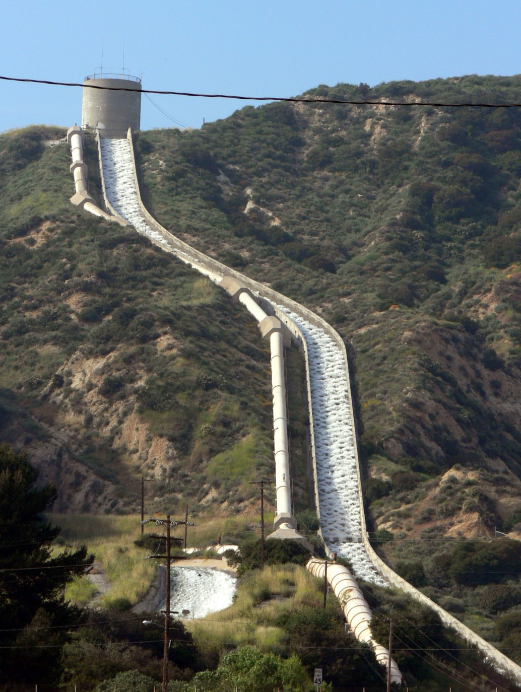 The Second Los Angeles Aqueduct Cascade, in the San Gabriel Mountains foothills of the northeastern San Fernando Valley - in Sylmar, Southern California. Channel seen on the left is part of the First Los Angeles Aqueduct Cascade begun in 1905 and opened in 1913, now a California Historical Landmark, Los Angeles Historic-Cultural Monument, and Historic Civil Engineering Landmark. Credits Photograph by Mike Dillon, May 14, 2006.